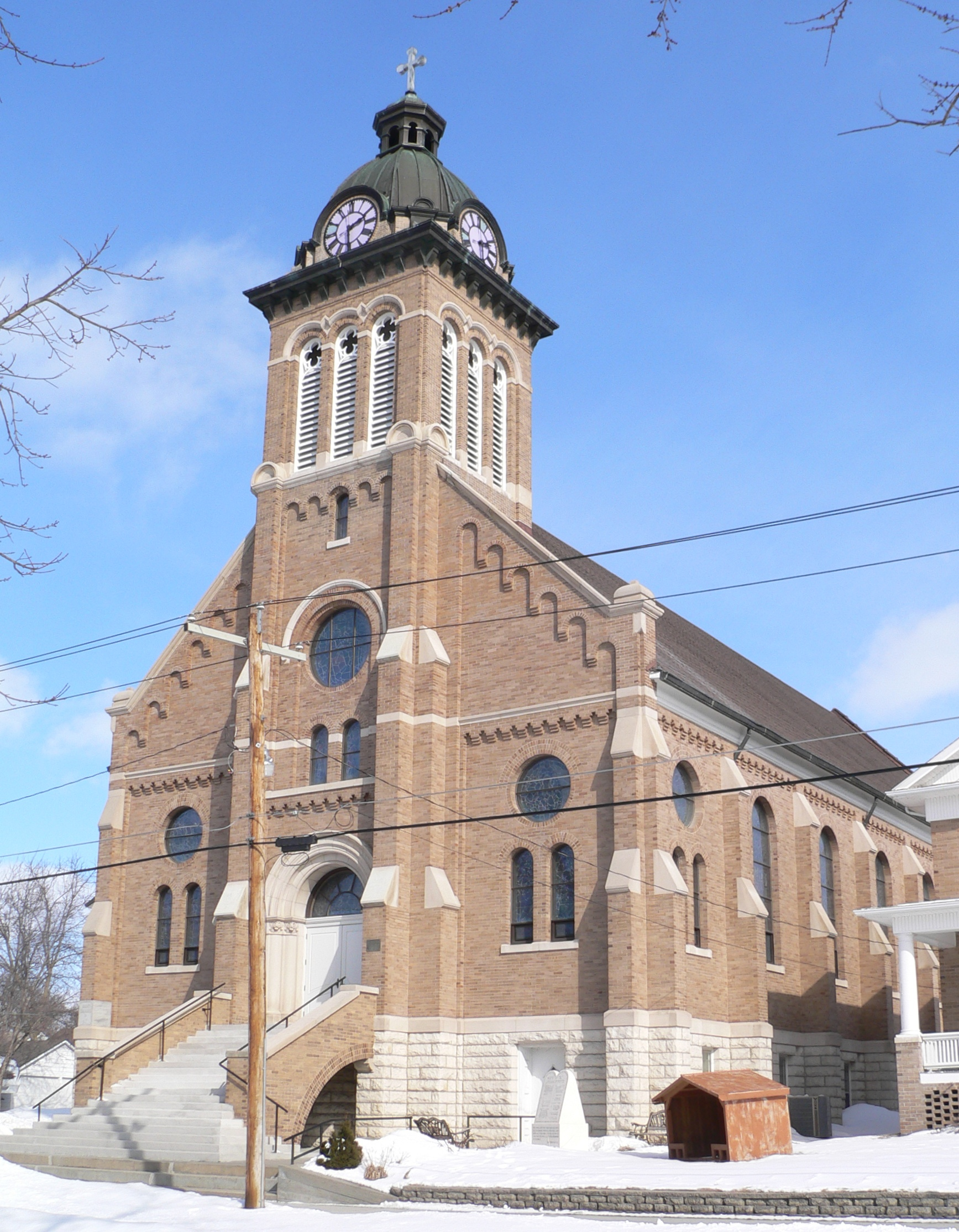 St. Leonard's Catholic Church in Madison, Nebraska; seen from the southwest. The church was designed in Romanesque Revival style by architect Jacob M. Nachtigall, and built in 1913. It is listed in the National Register of Historic Places.